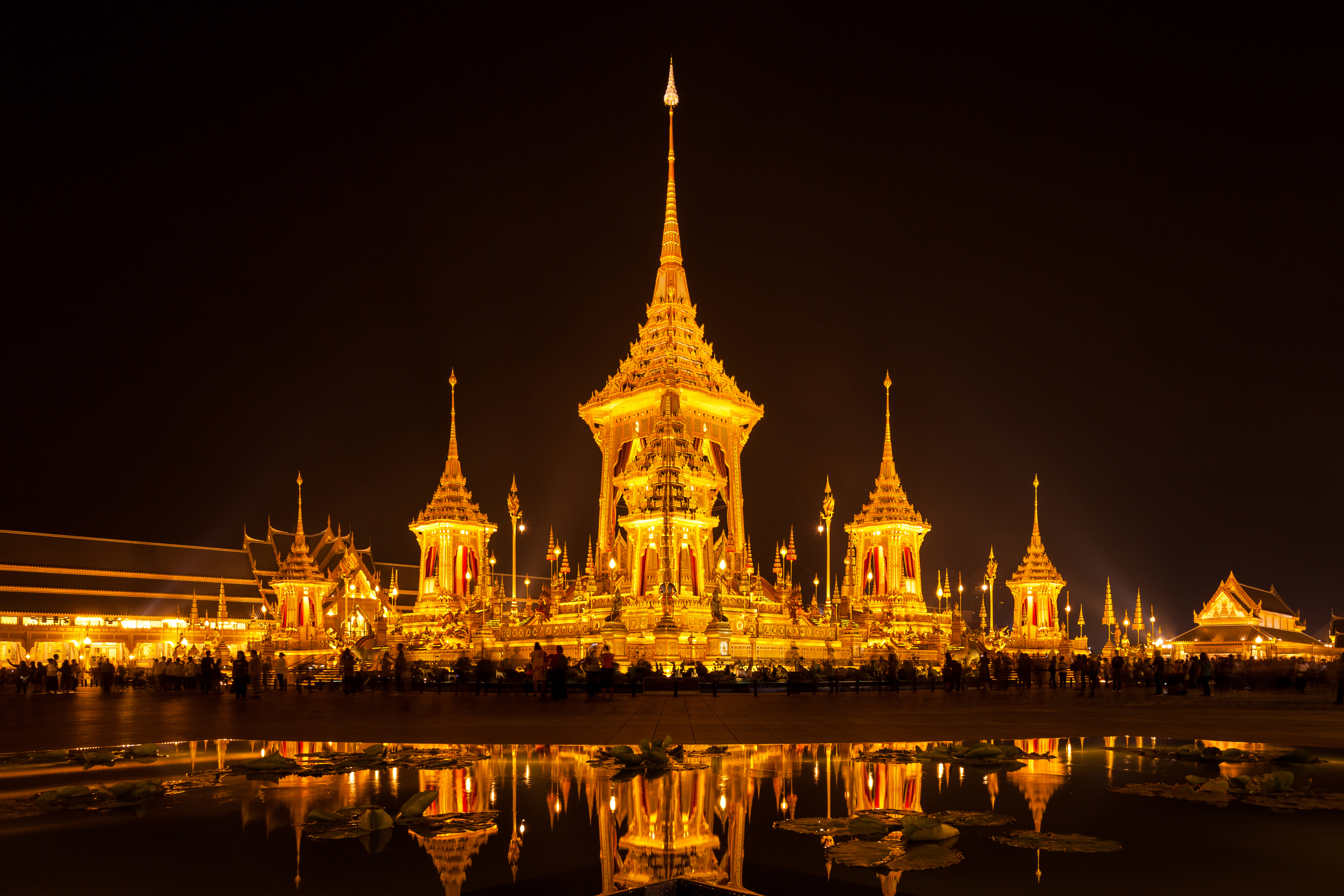 Royal crematorium of King Rama IX at night.